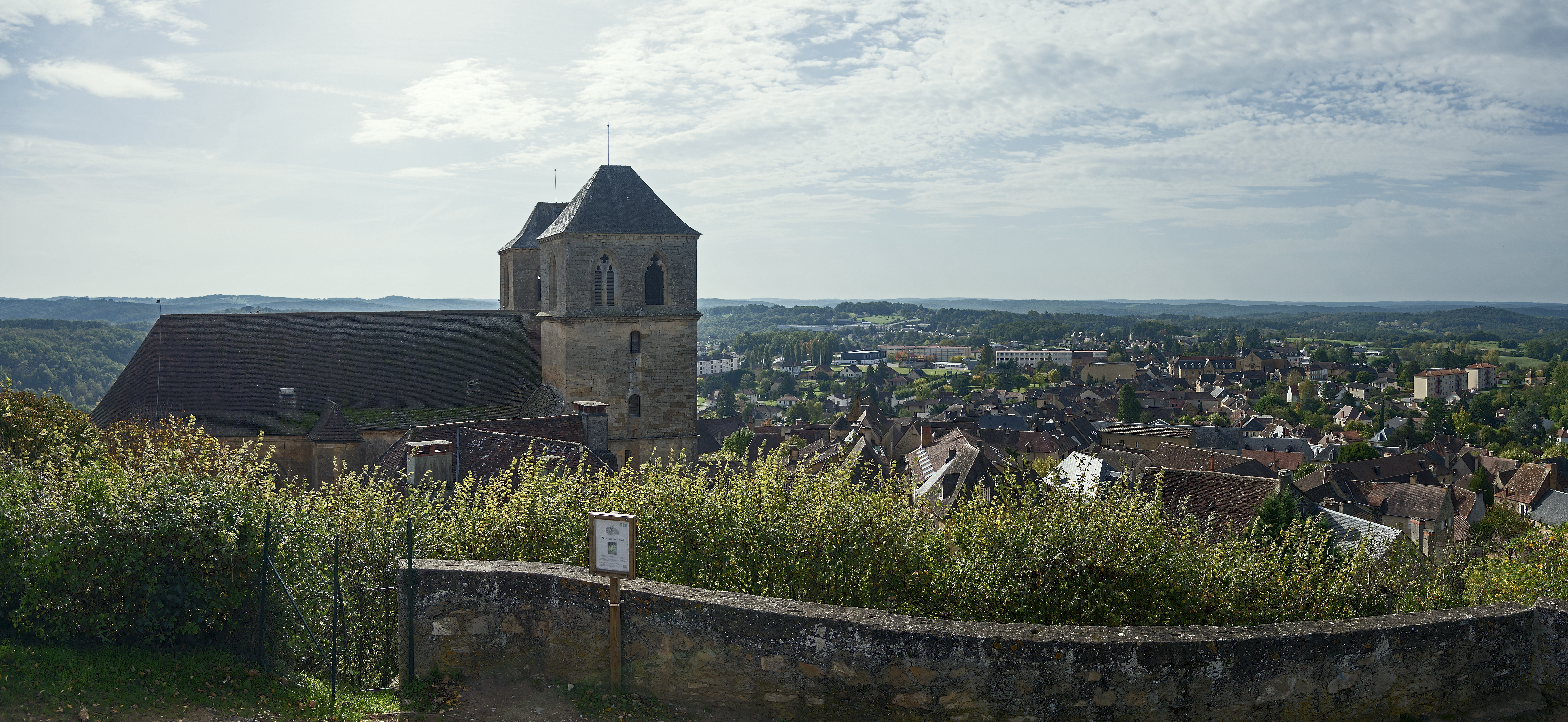 Gourdon, Lot. Town and St.Pierre Chuch.